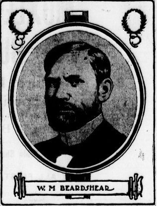 W.M. Beardshear